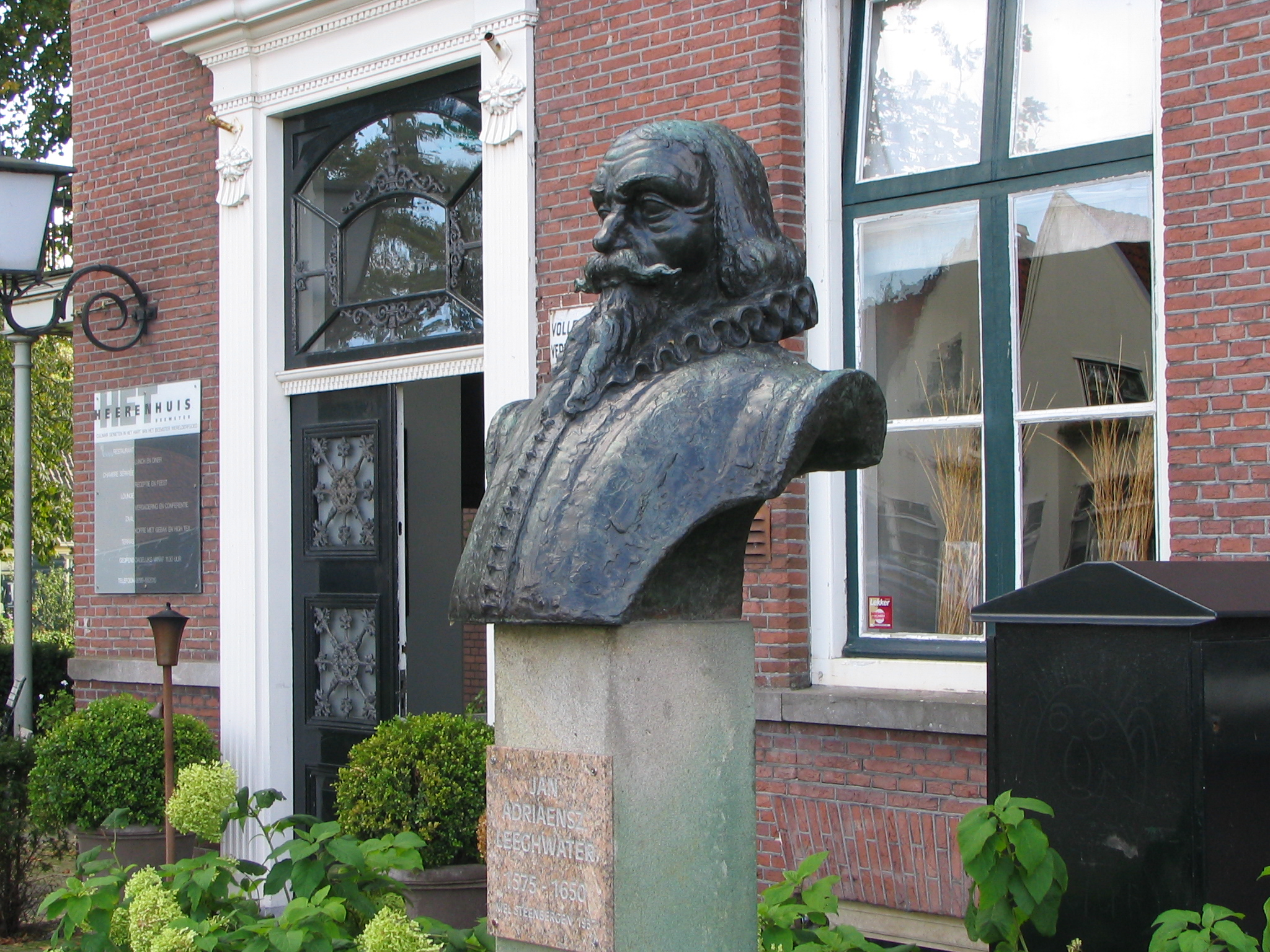 Statue of Jan Adriaanszoon Leeghwater